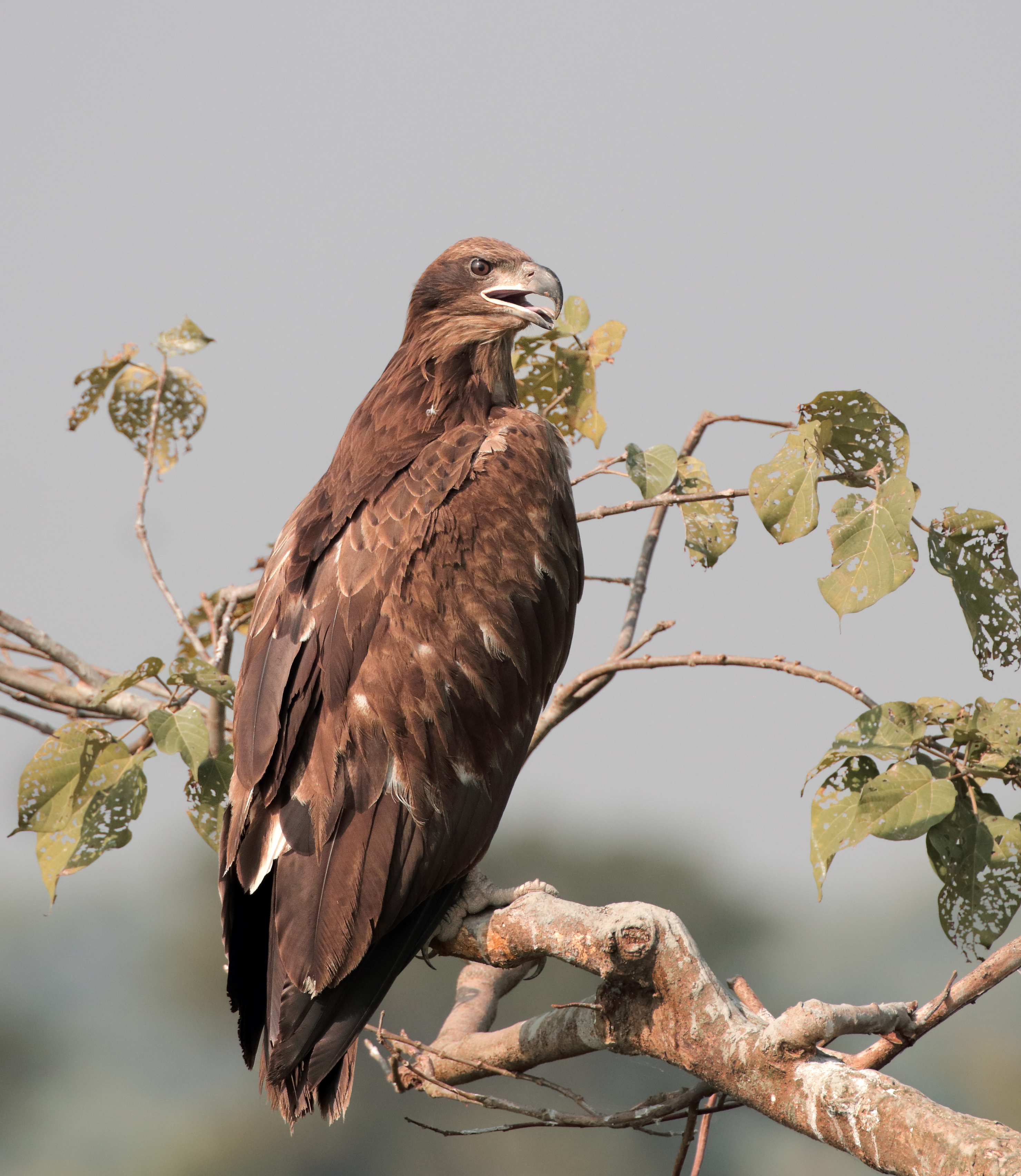 Pallas's Fish Eagle Haliaeetus leucoryphus in Bangladesh, also known as Pallas's sea eagle or band-tailed fish eagle, is a large, brownish sea eagle.